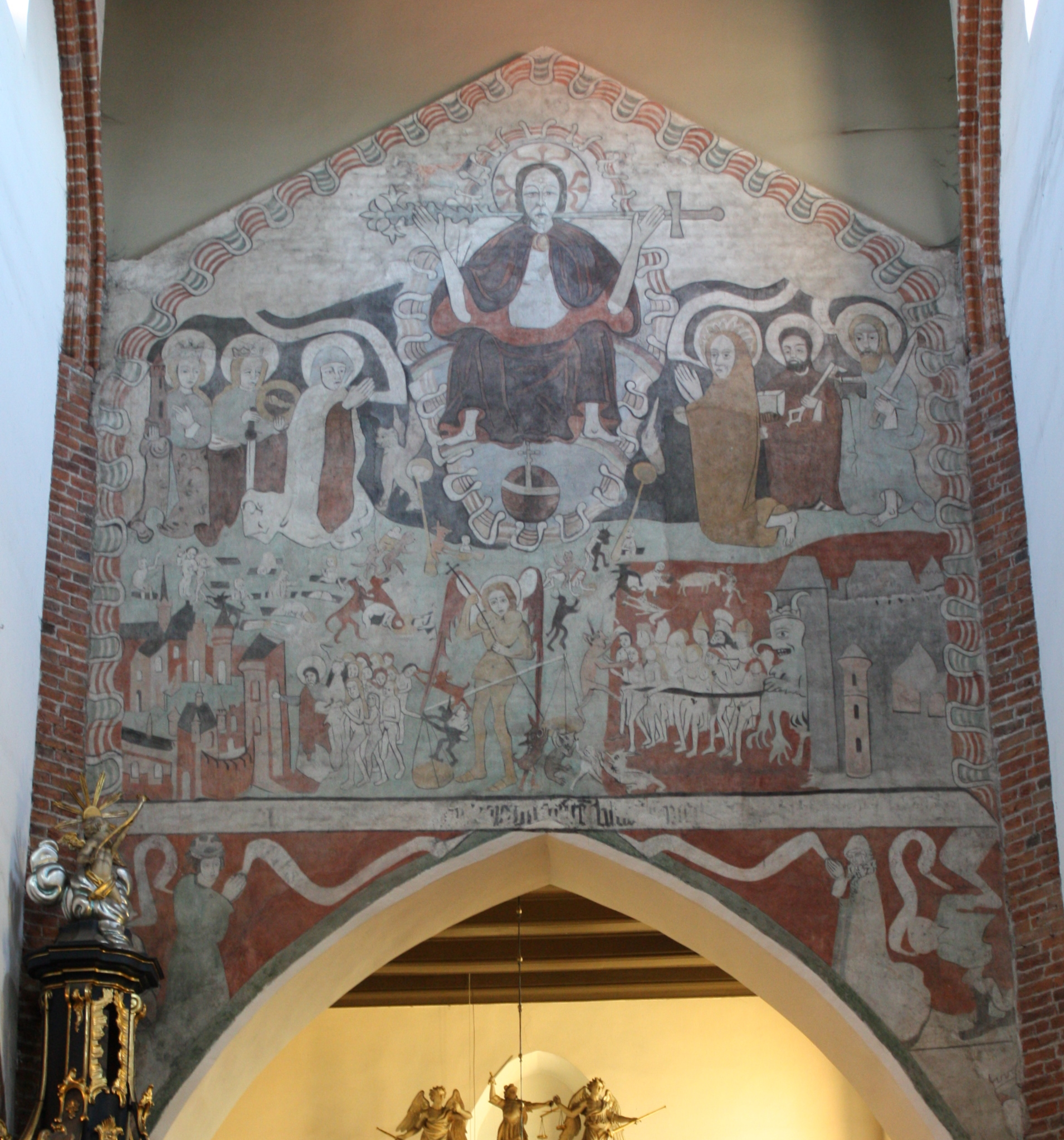 Starogard Gdański, St. Matthew Church